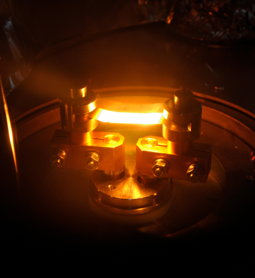 Resistive heating evaporation